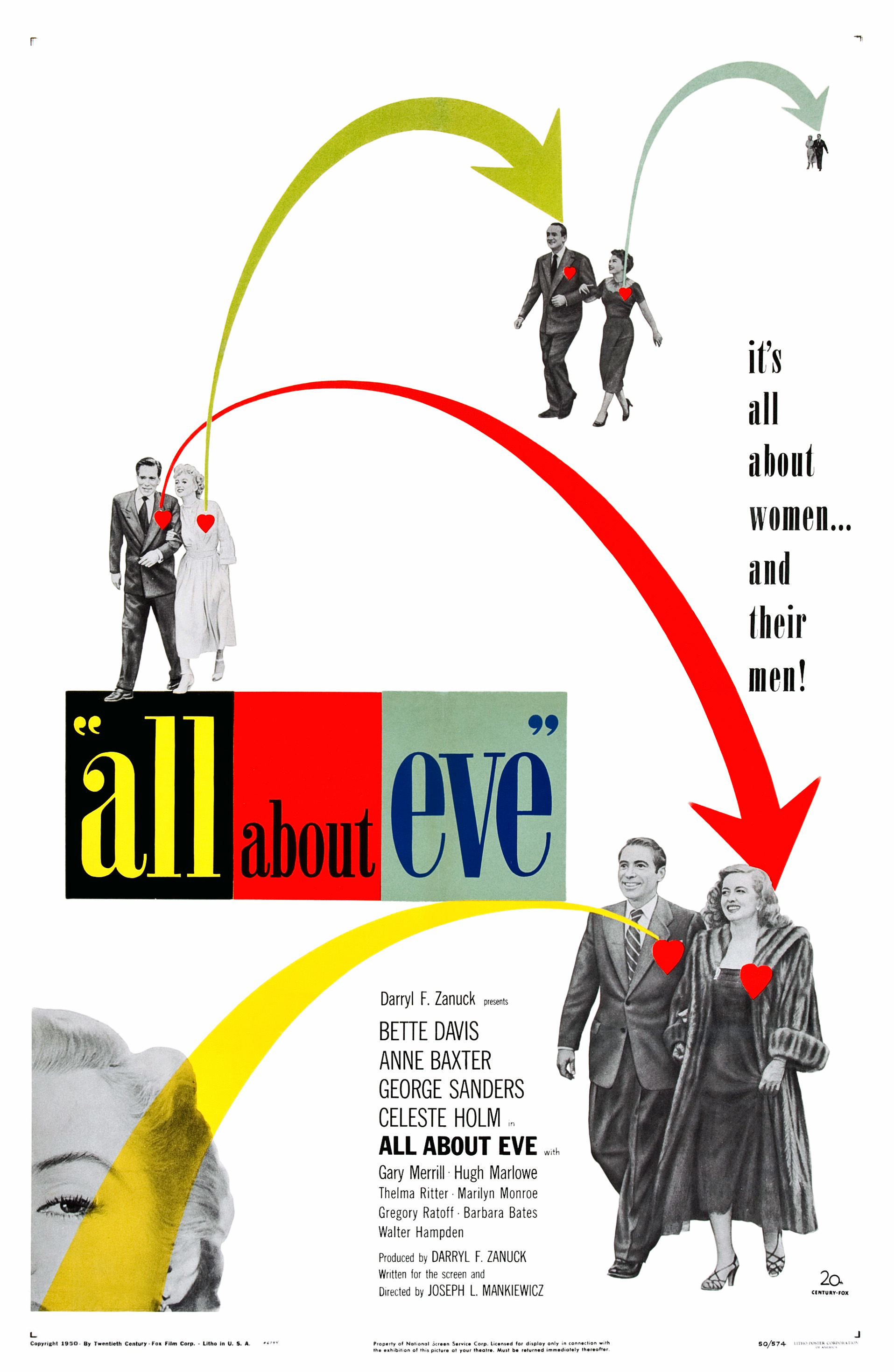 Original theatrical release poster for the 1950 film All About Eve.